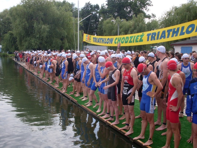 Start Mistrzostw Polski w Triathlonie w lipcu 2009 roku